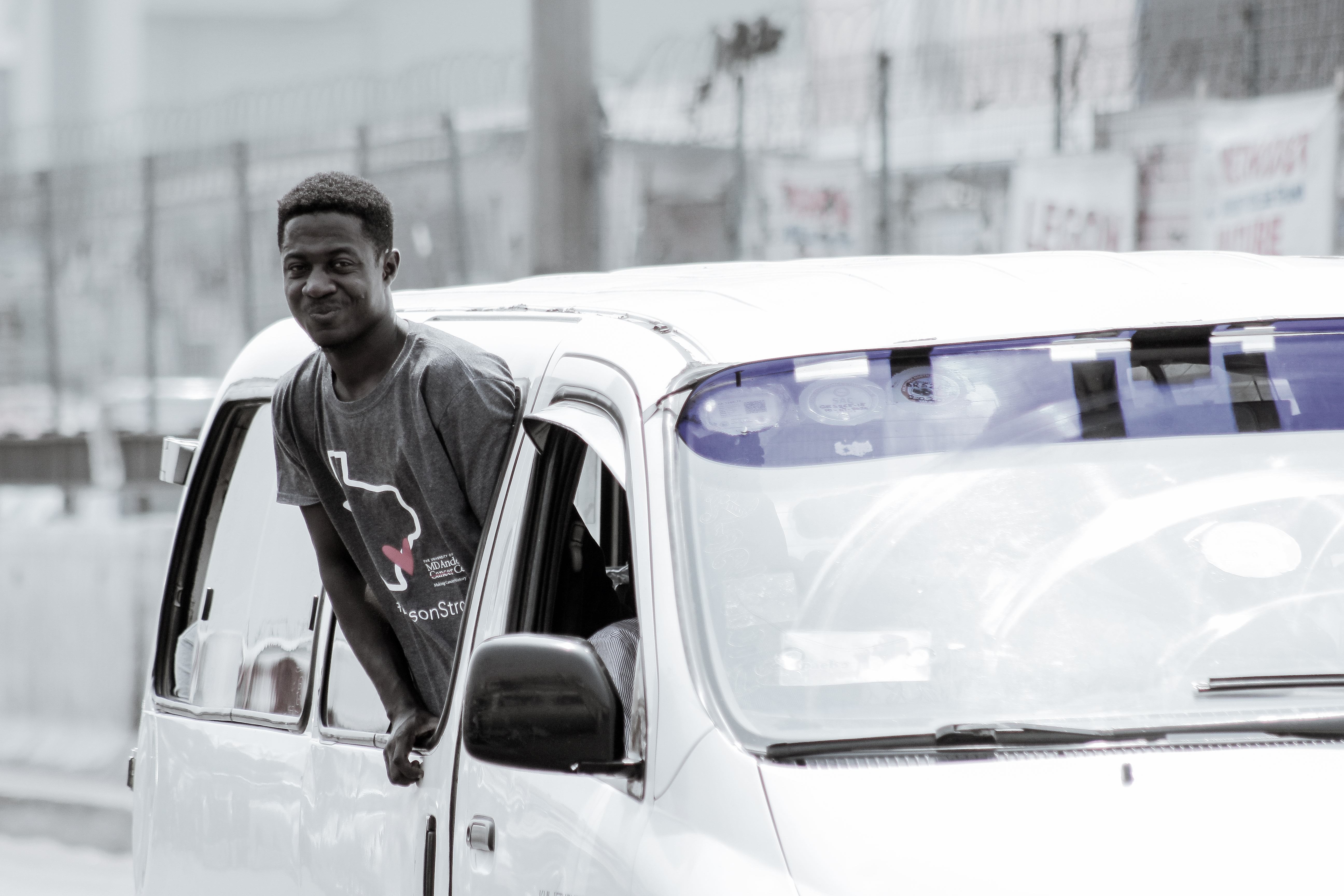 A bus conductor hanging out of a Tro Tro and calling out to prospective passengers in Accra, Ghana This is an image with the theme "Africa on the Move or Transport" from: Ghana